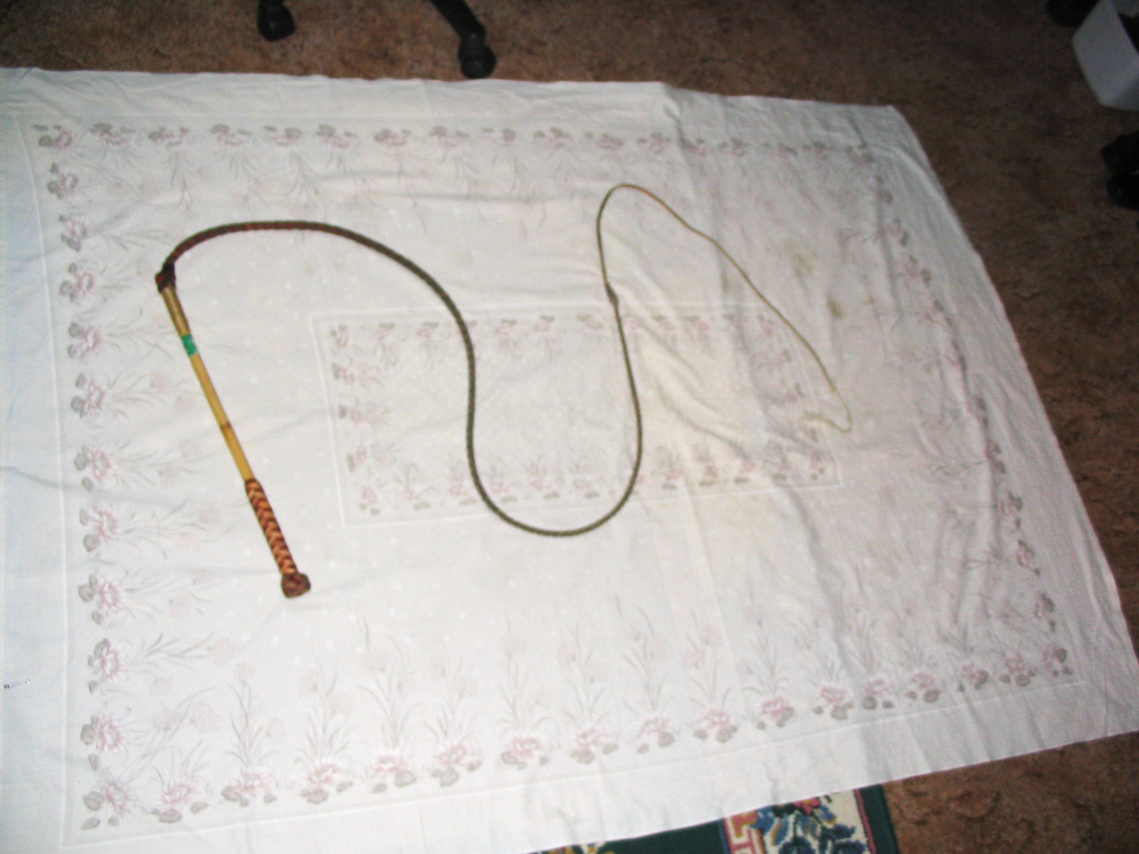 This is a picture of a 5x4x4 Australian stockwhip.